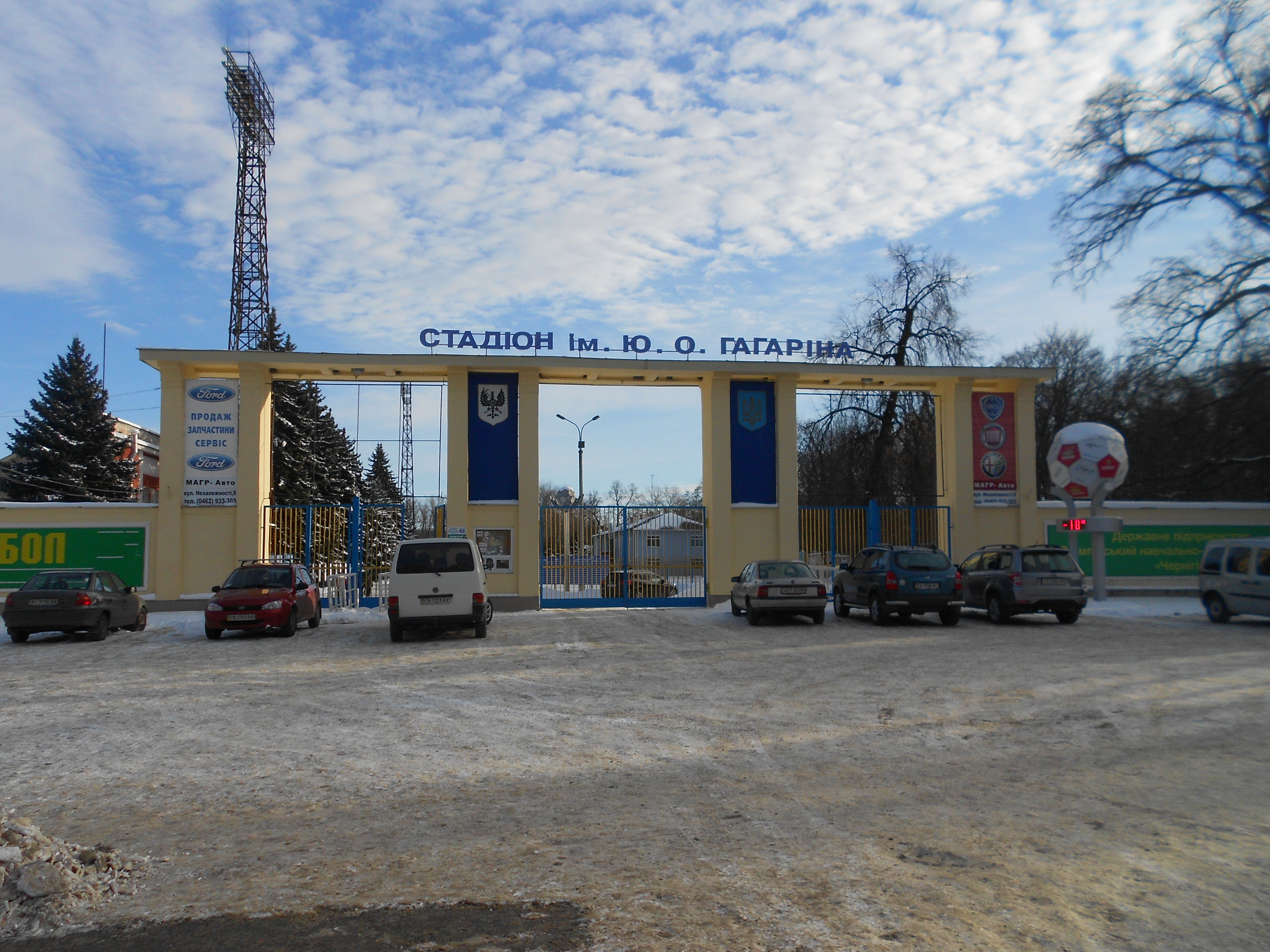 Yuri Gagarin Stadium in Chernihiv, Ukraine